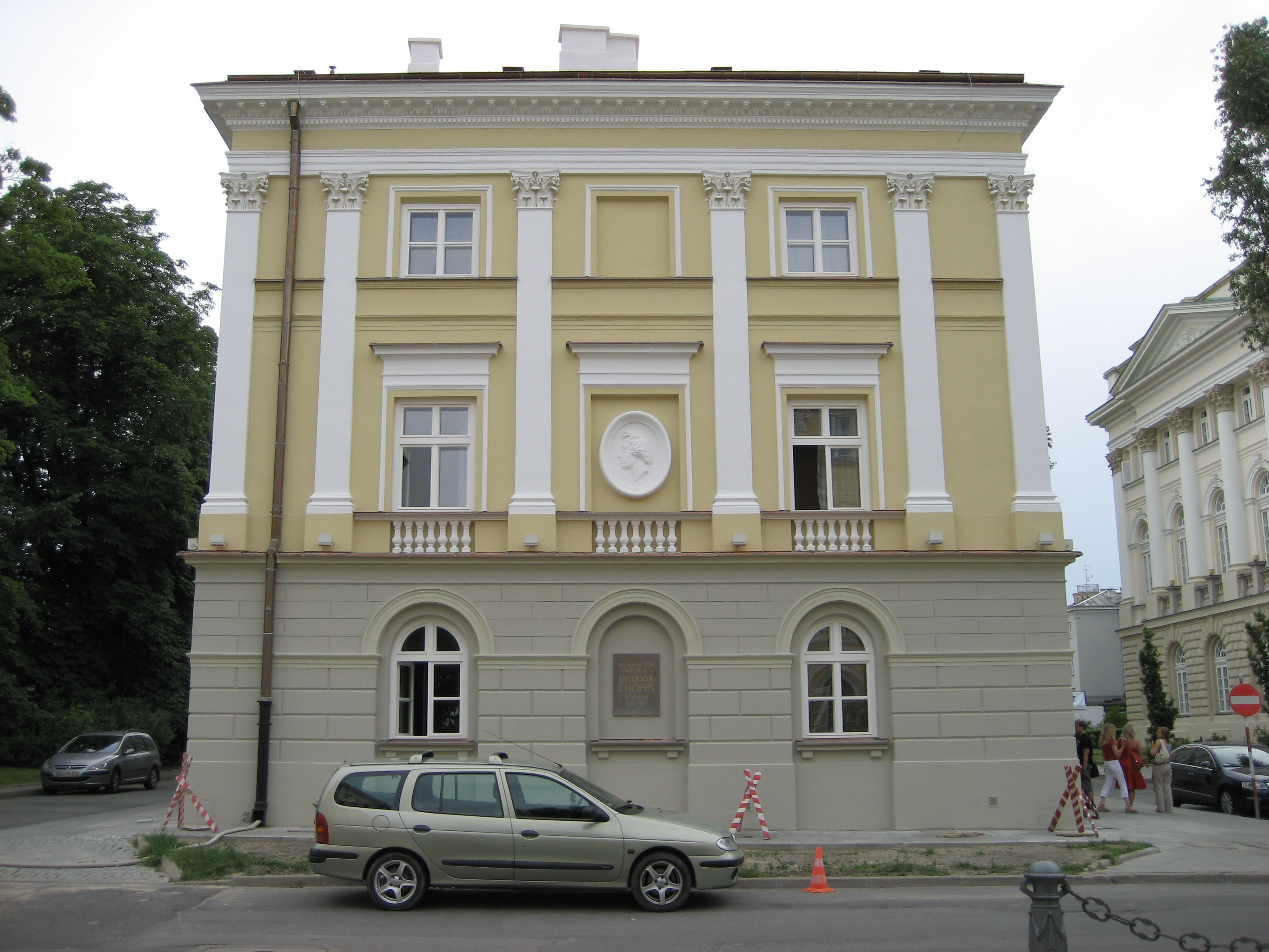 Warsaw University building in which Fryderyk Chopin lived in 1817-27.